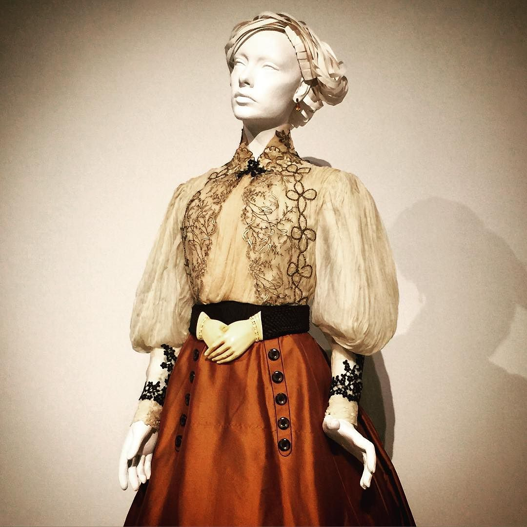 Costume from the film Crimson Peak displayed at the exhibition 24th Annual Art of Motion Picture Costume Design at FIDM Museum, Los Angeles, CA.